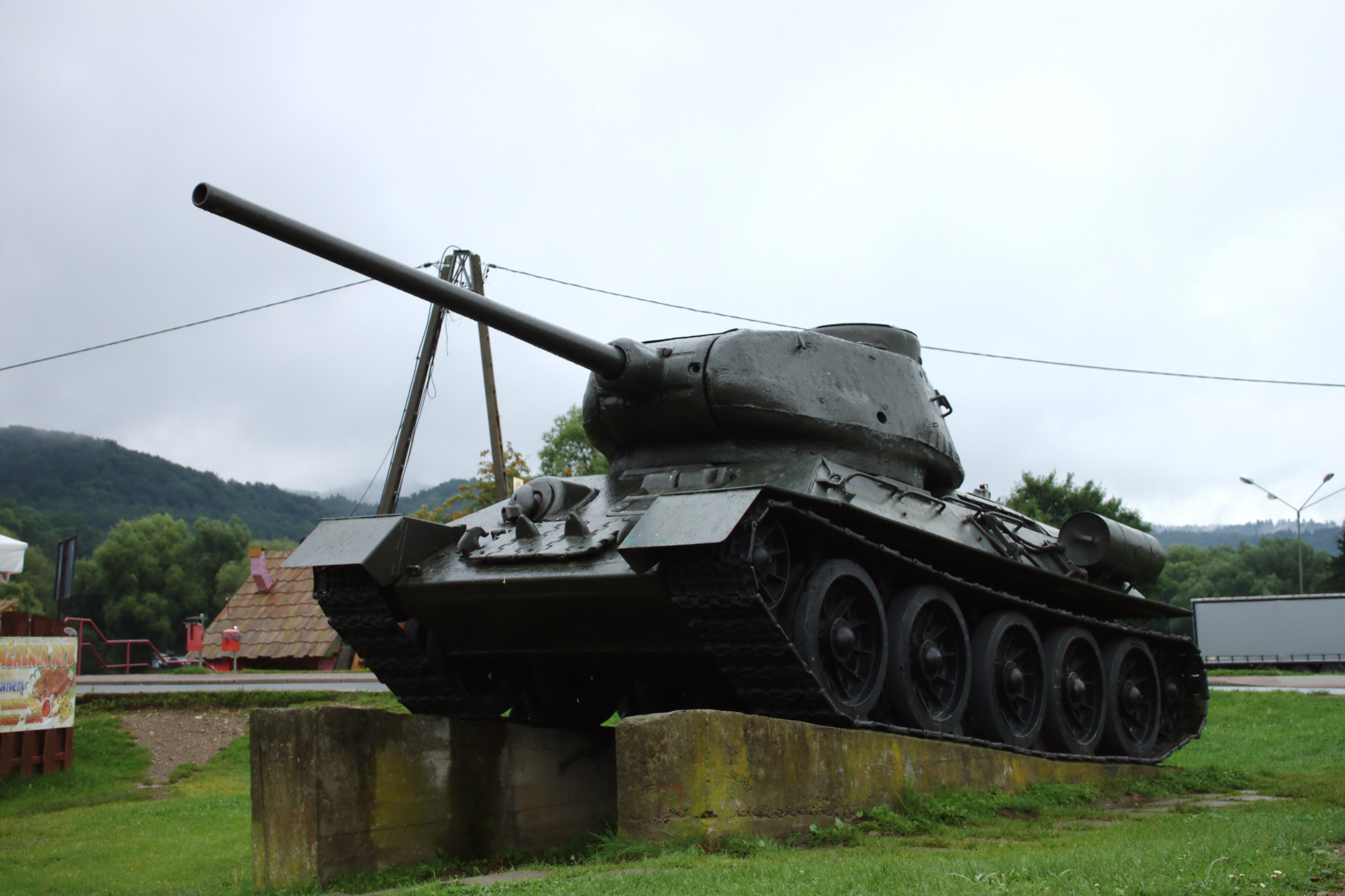 T-34 tank as a part of the monument in Sanok, Podkarpackie voiovdeship, Poland